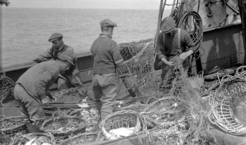 The Koraaga. Built 1914 Trawling - mending nets and sorting fish on Koraaga